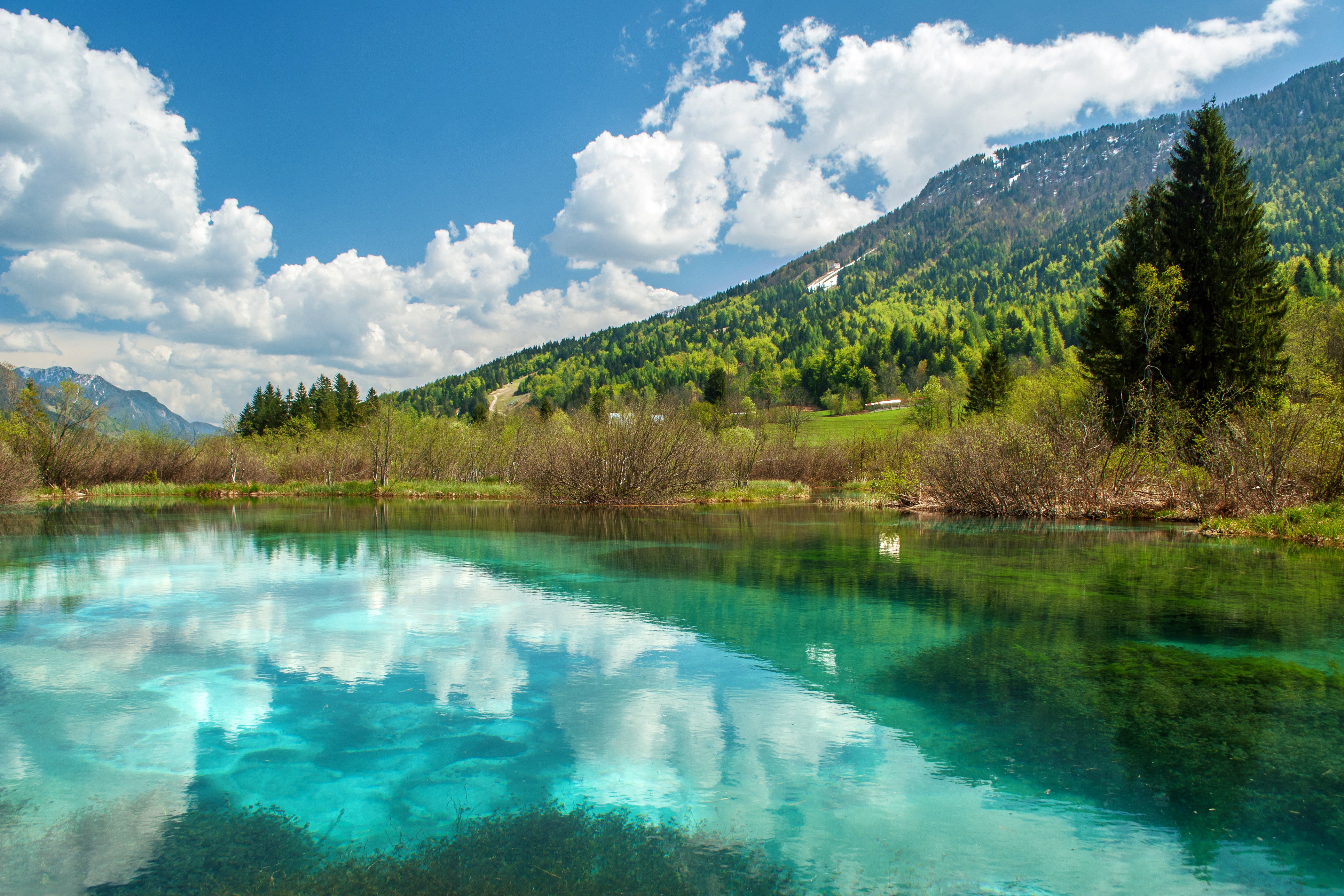 Zelenci, Sava Dolinka Spring